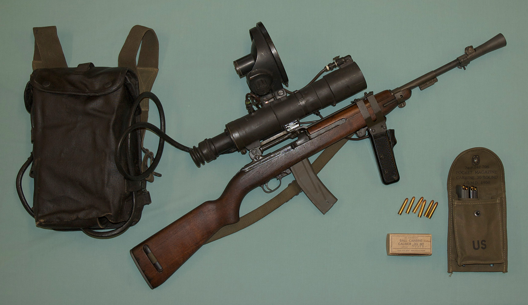 M3 Sniperscope, early active infrared night vision equipment. Korean War era, original USMC sniperscope assembled on an M1 Carbine. Rubberized canvas backpack carried a large 12 volt battery to energize the 20,000 volt sniperscope. M3 Flashhider on muzzle, spare .30 Carbine ammunition and 30-round magazines with pouch.